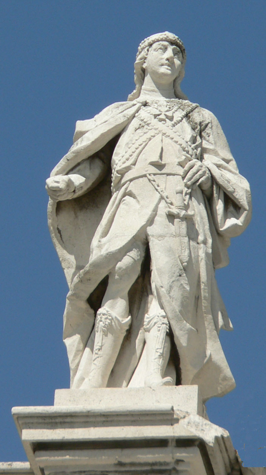 Recaredo II, a Visigoth king, son of Sisebuto; his reign only lasted 30 days, probably died poisoned in 621. His statue on the base of Recaredo I at the moment in the balustrade of the Royal Palace of Madrid.